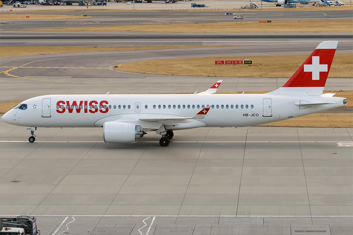 Swiss, HB-JCO, Airbus A220-300